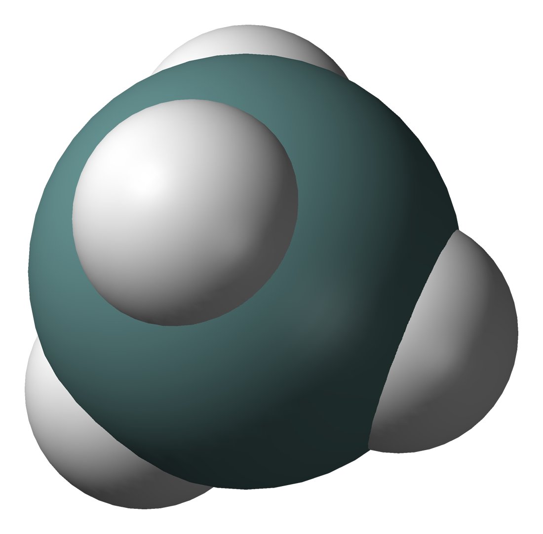 Space-filling model of the germane molecule, GeH4